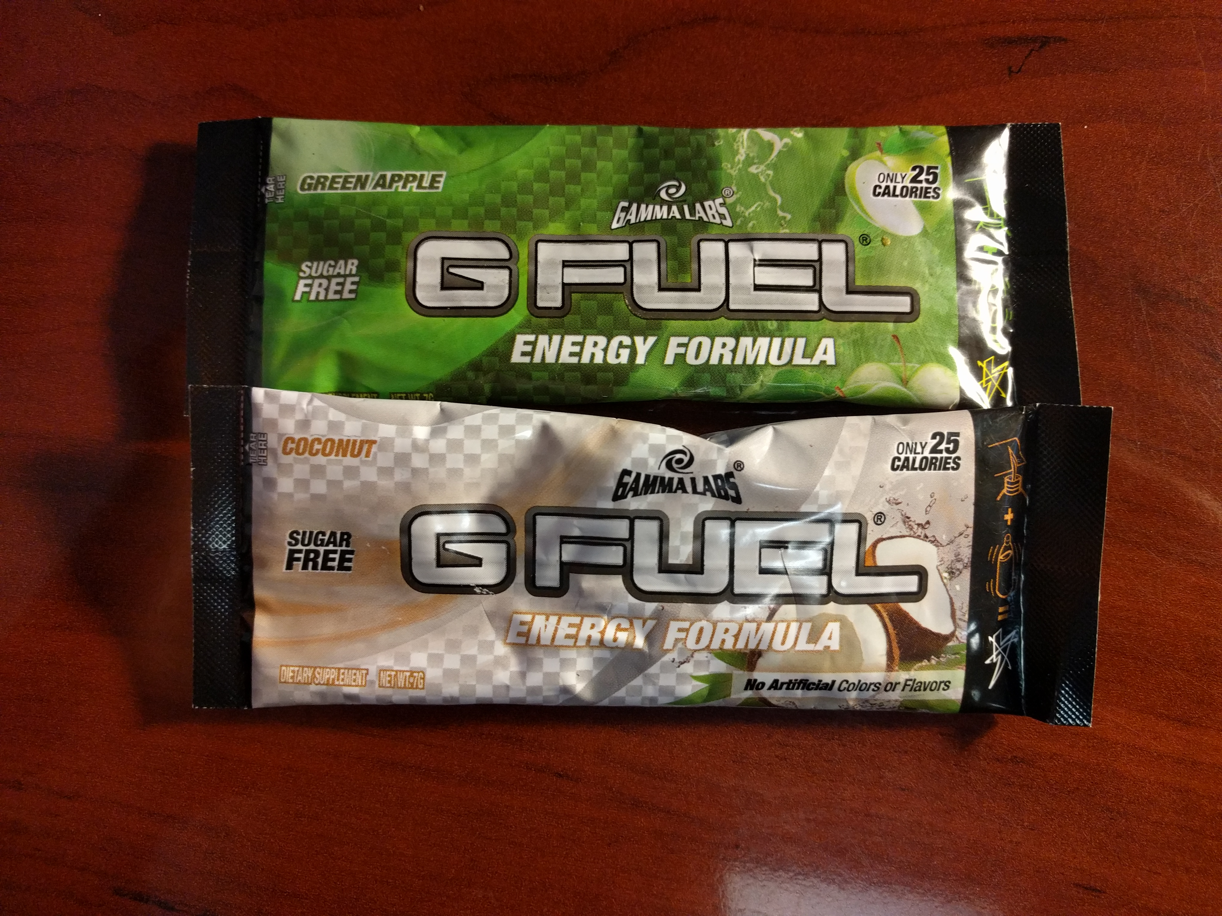 G Fuel Energy Formula packets. Green Apple and Coconut